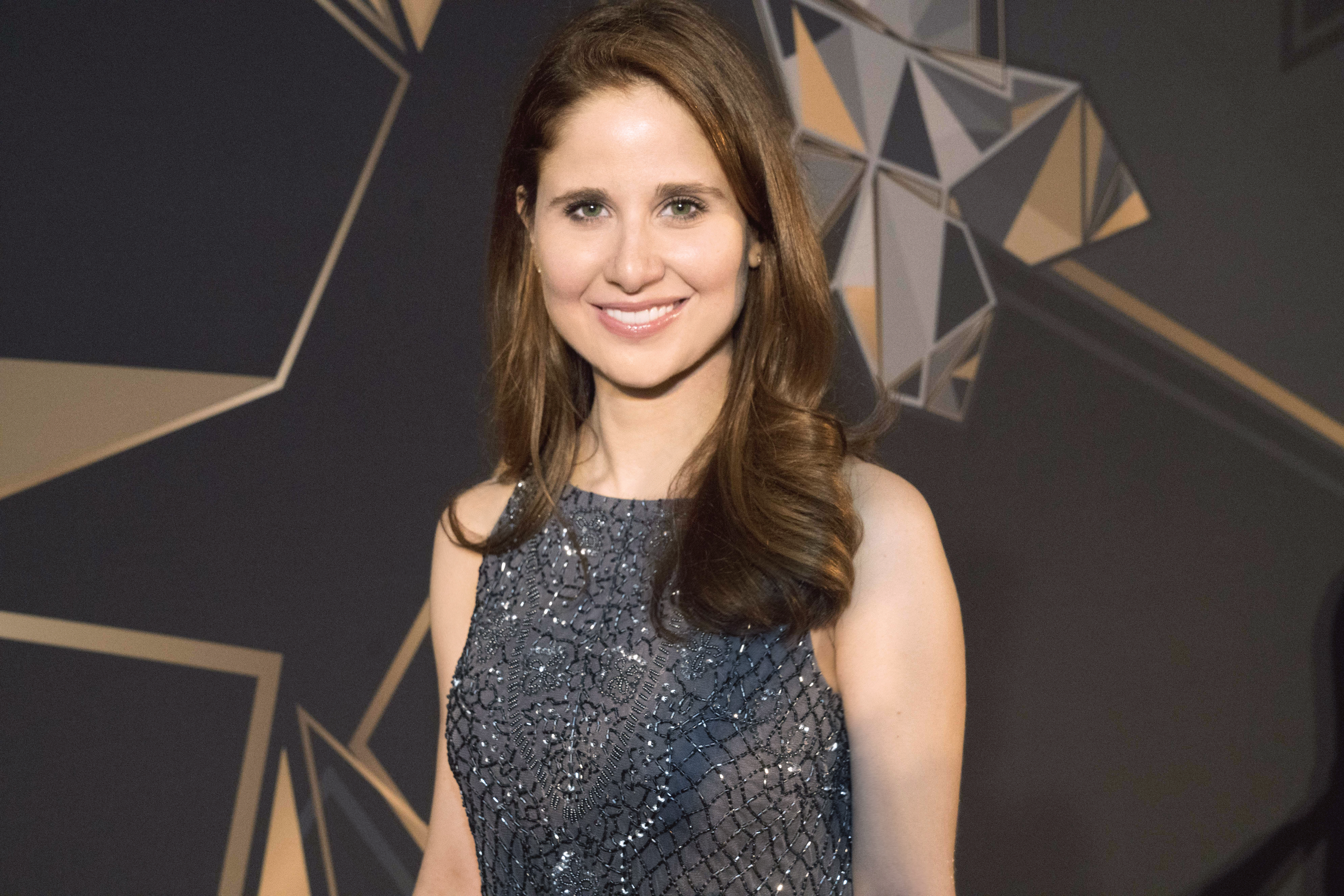 Adriana Ferreyr at the 2016 American Film Market,“Thailand Film Incentive Measure""